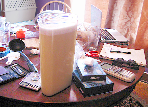 A homemade batch of Soylent, immediately after preparation.